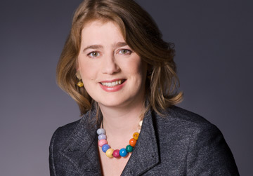 Portraiture of Ulrike T. Kissmann